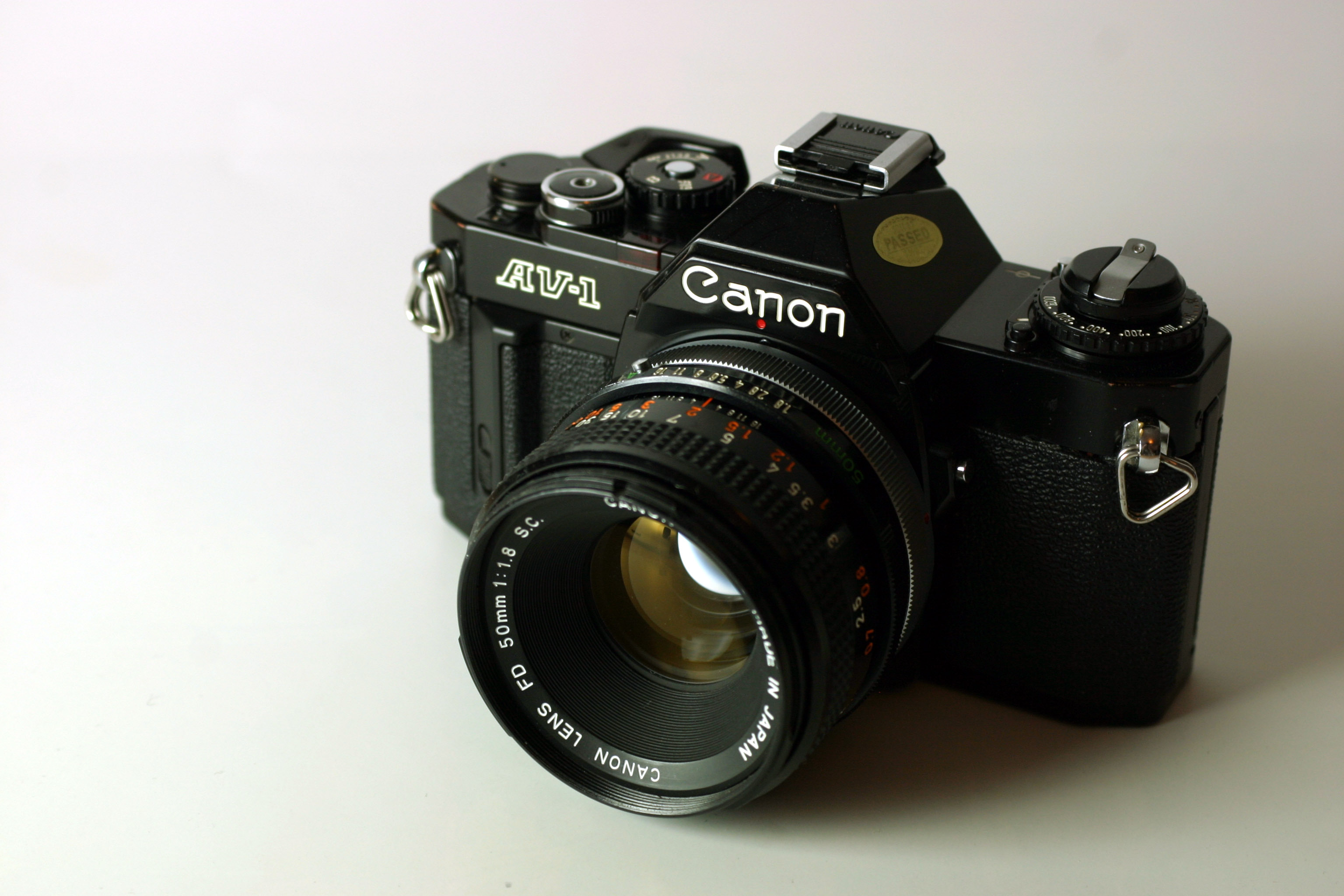 Canon Av-1 with 50mm Canon f/1.8 Lens.